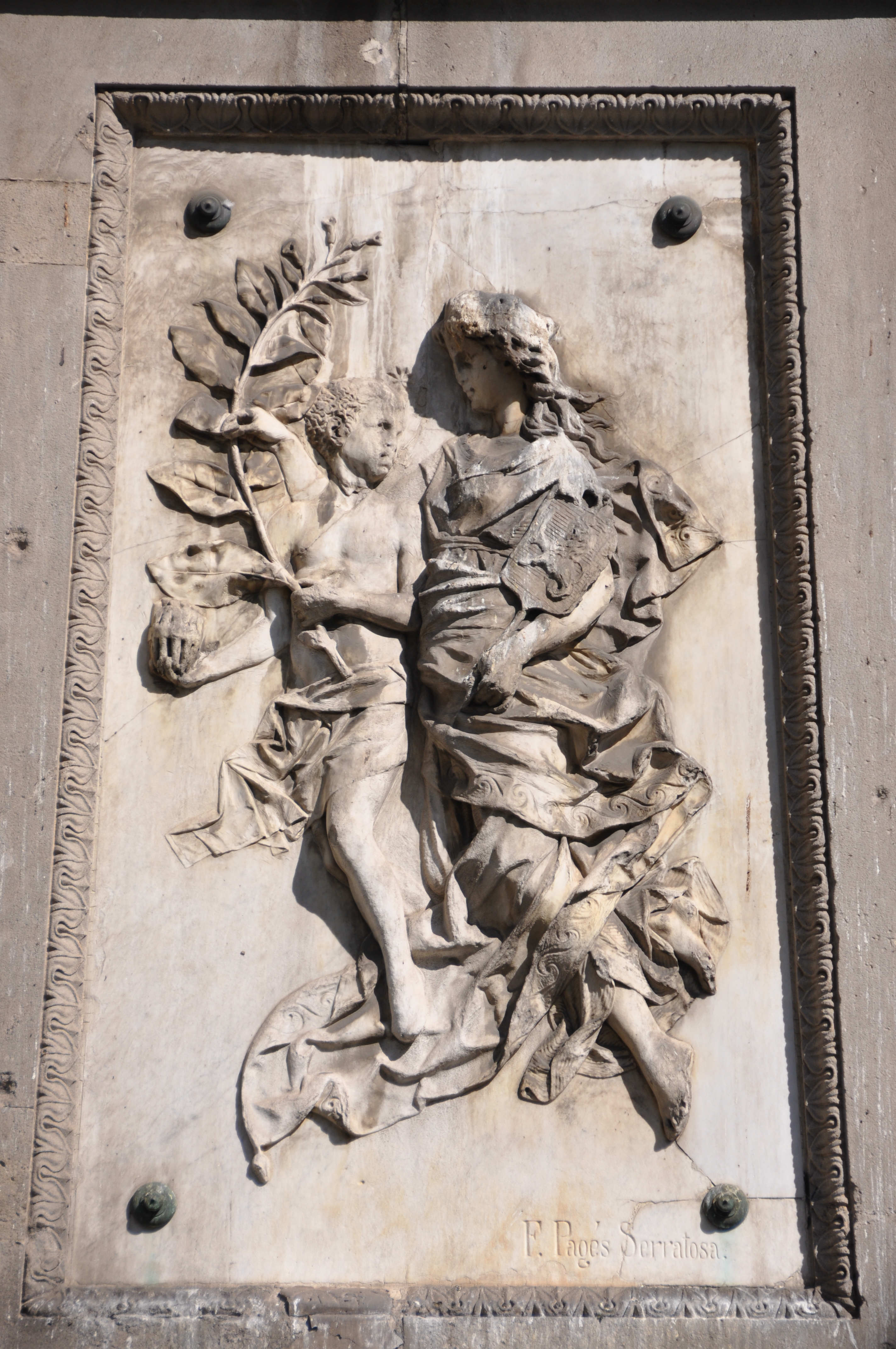 Monument to Antonio Lopez y Lopez, marquis of Comillas. (Barcelona) Allegory of "Compañia General de Tabacos de Filipinas". Francesc Pagès i Serratosa, sculptor 1884 Tobacco Philippines